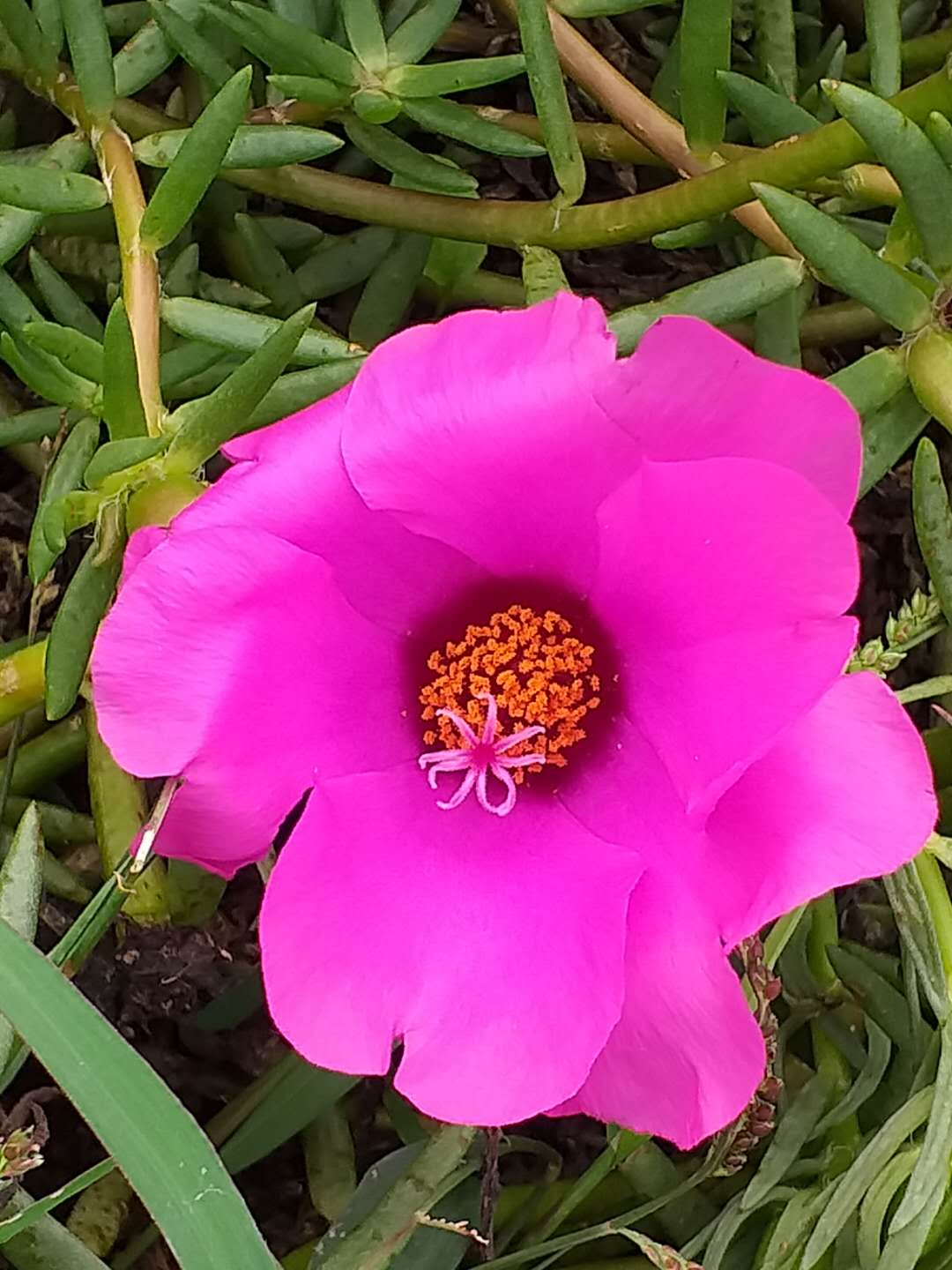 Portulaca grandiflora. 2018 Taichung World Flora Exposition, Taiwan.